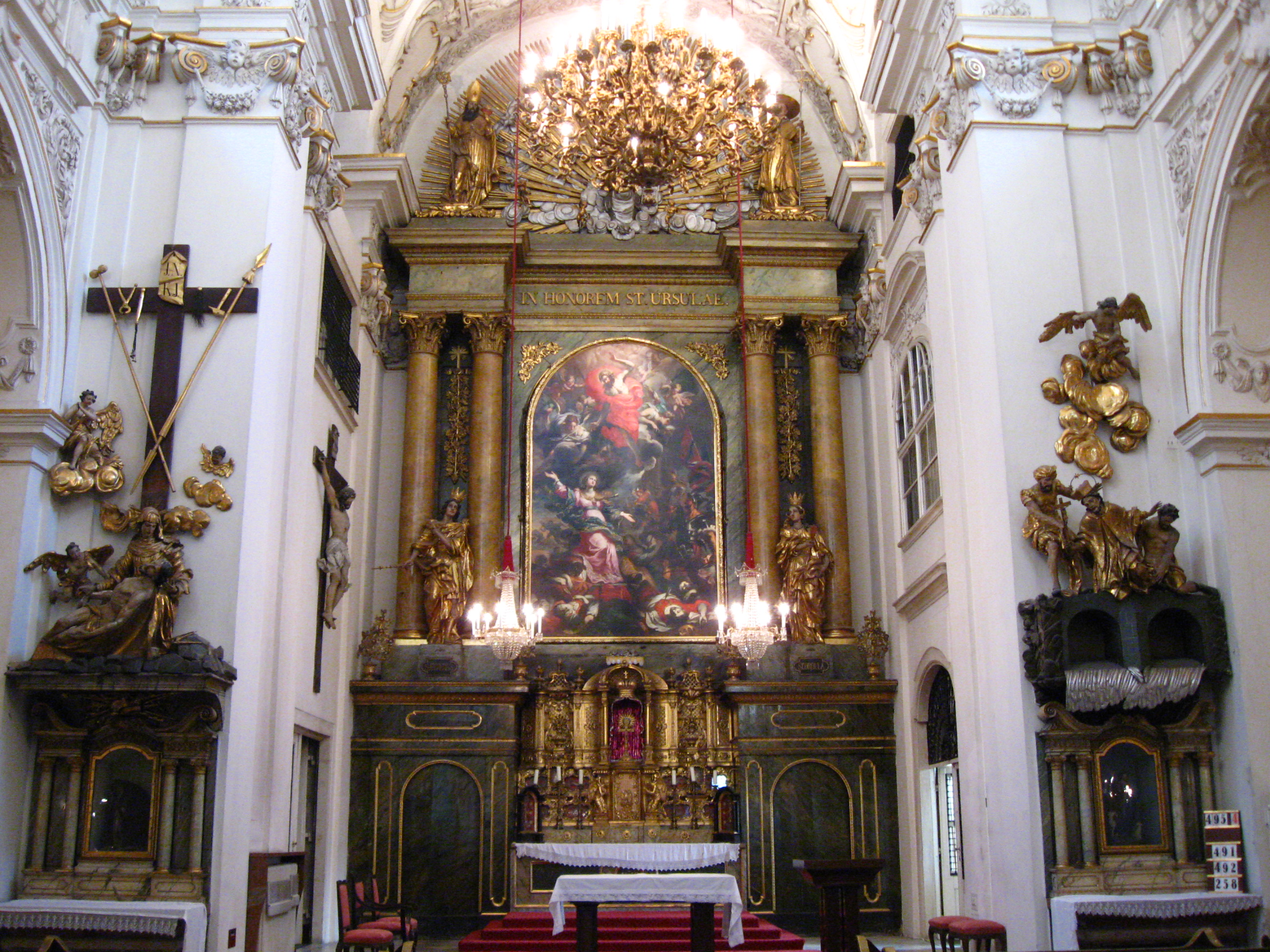 Interior room of St. Ursula-Church, Vienna